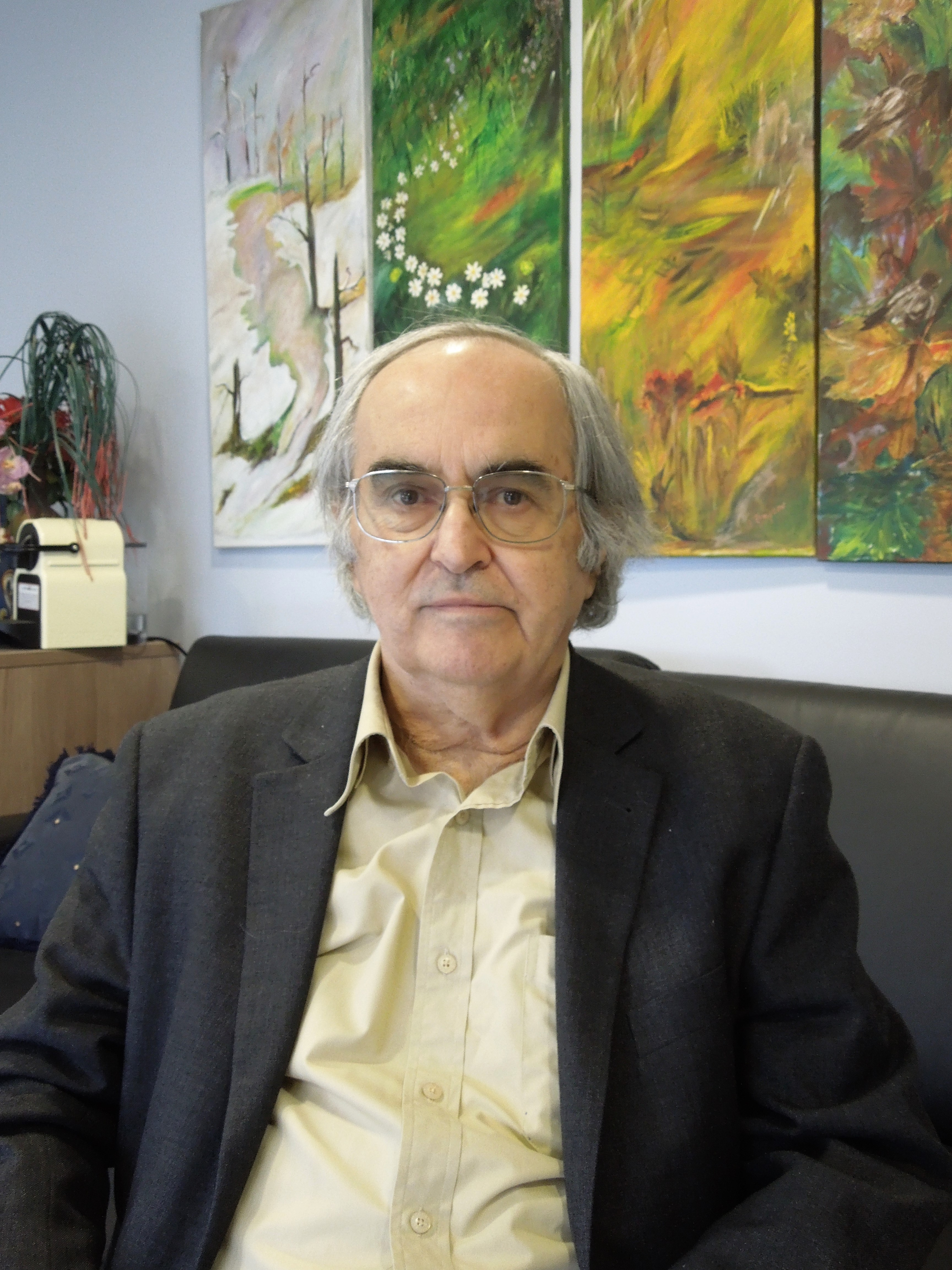 Photo of professor Tzartos Socrates at his office at the Pasteur Hellenic Institute.